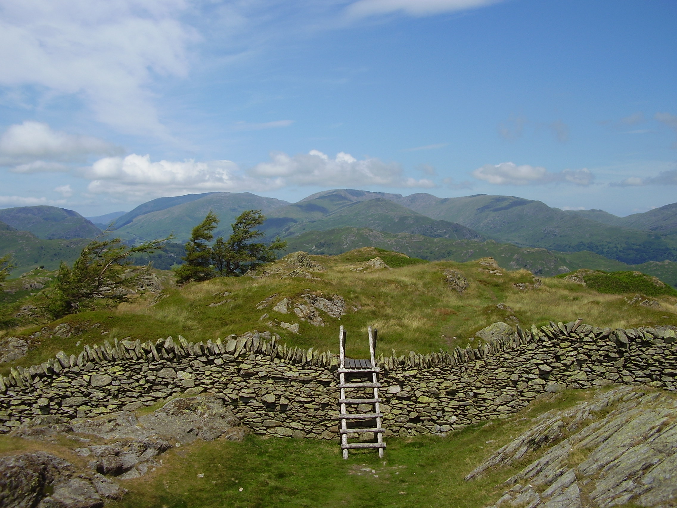 i took this photo and i give permission for anyone to copy and/or distribute it. Frederic Jayatilaka (freddyj66).